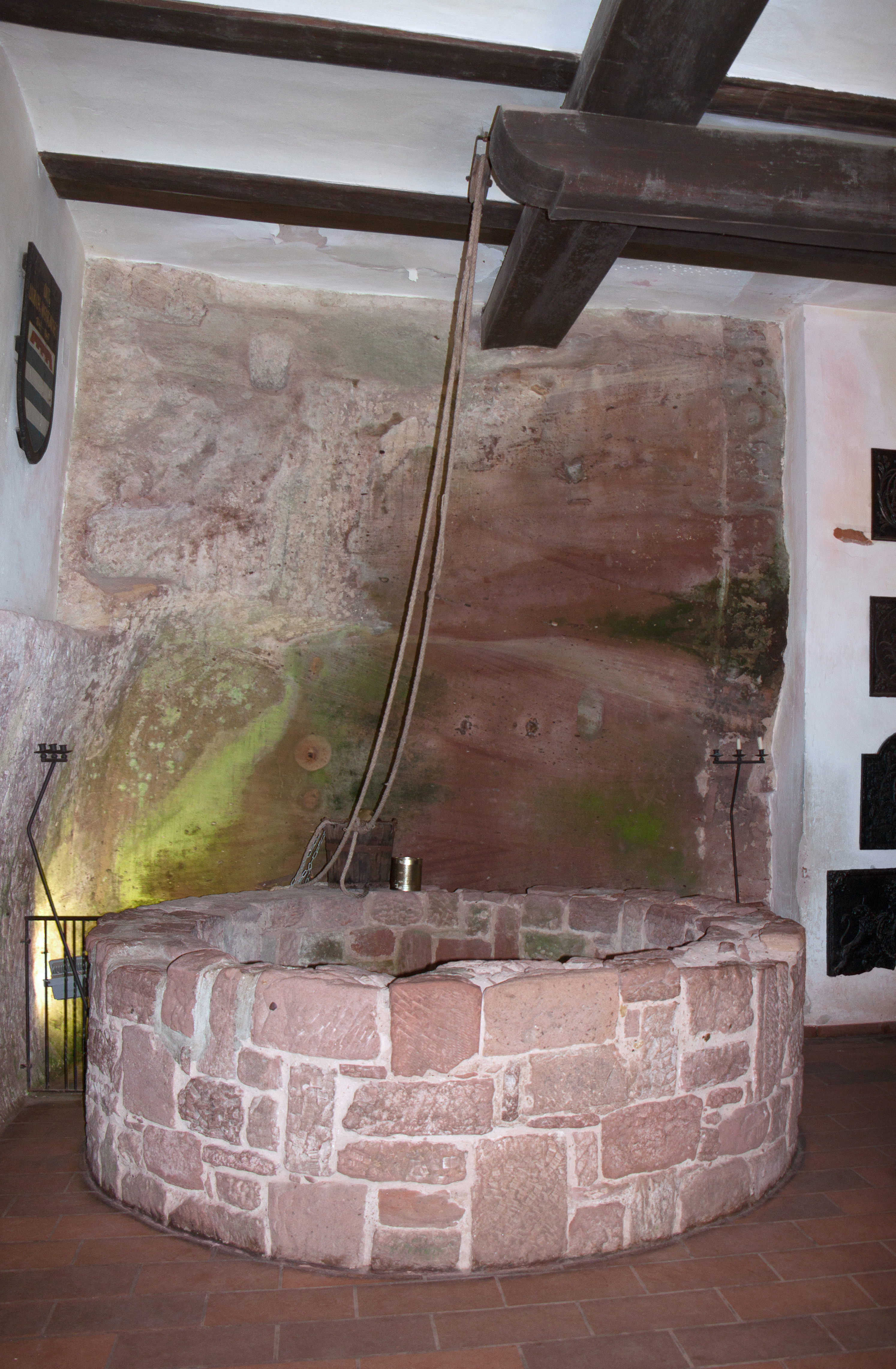 Well (depth 104 m) of Berwartstein Castle, Rhineland-Palatinate, Germany.